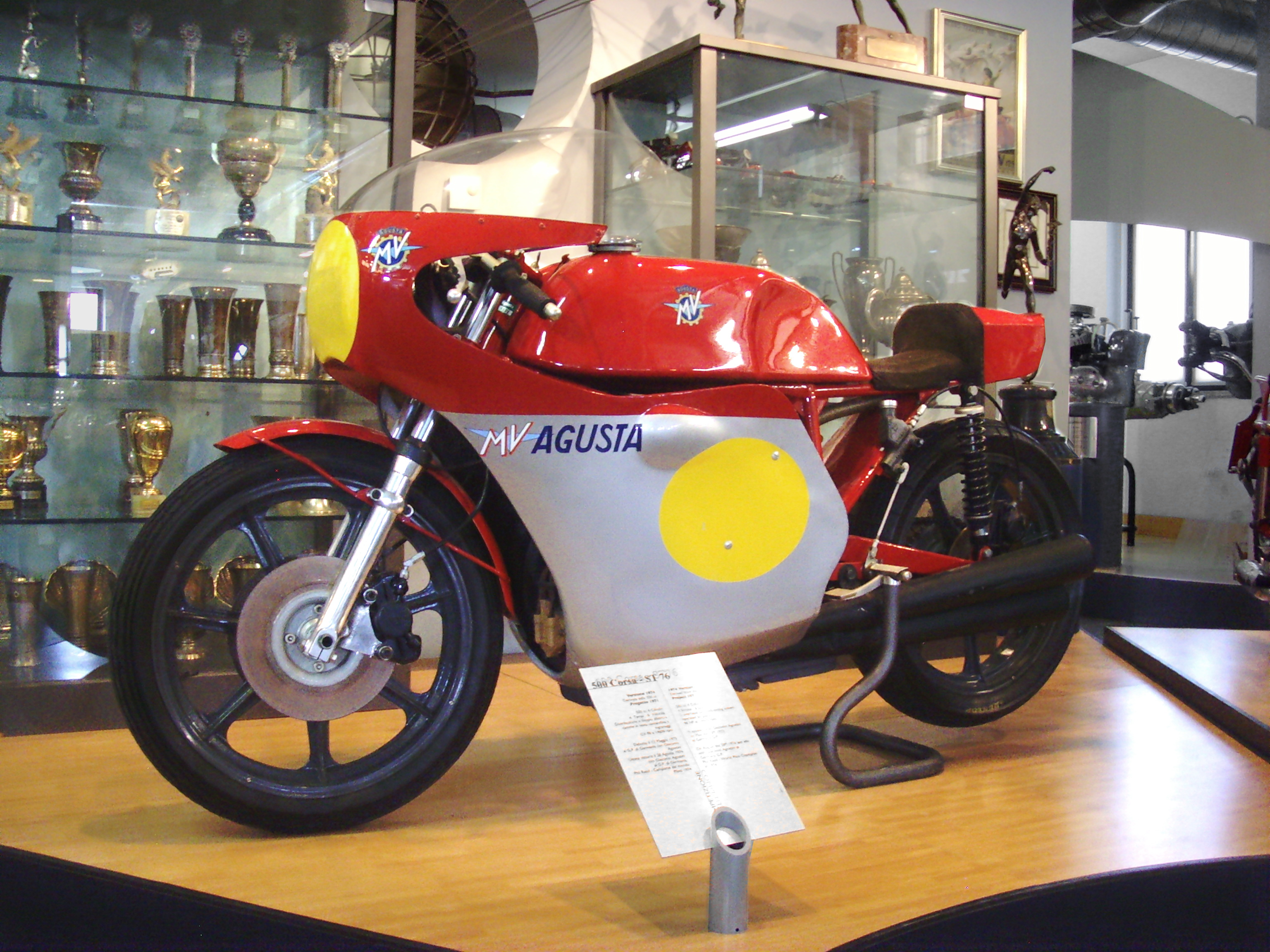 MV Agusta 500 Corsa ST, 1976